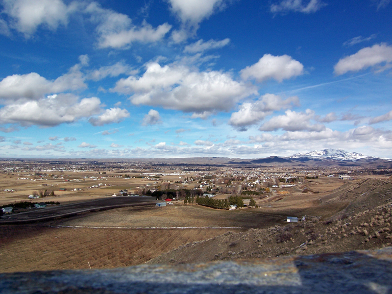 Aerial view of Emmett, Idaho, USA